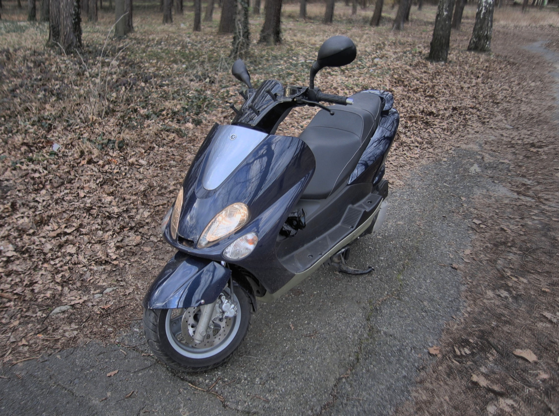 a Yamaha Majesty 125. This particular vehicle is lacking the windshield